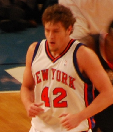 David Lee of the New York Knicks